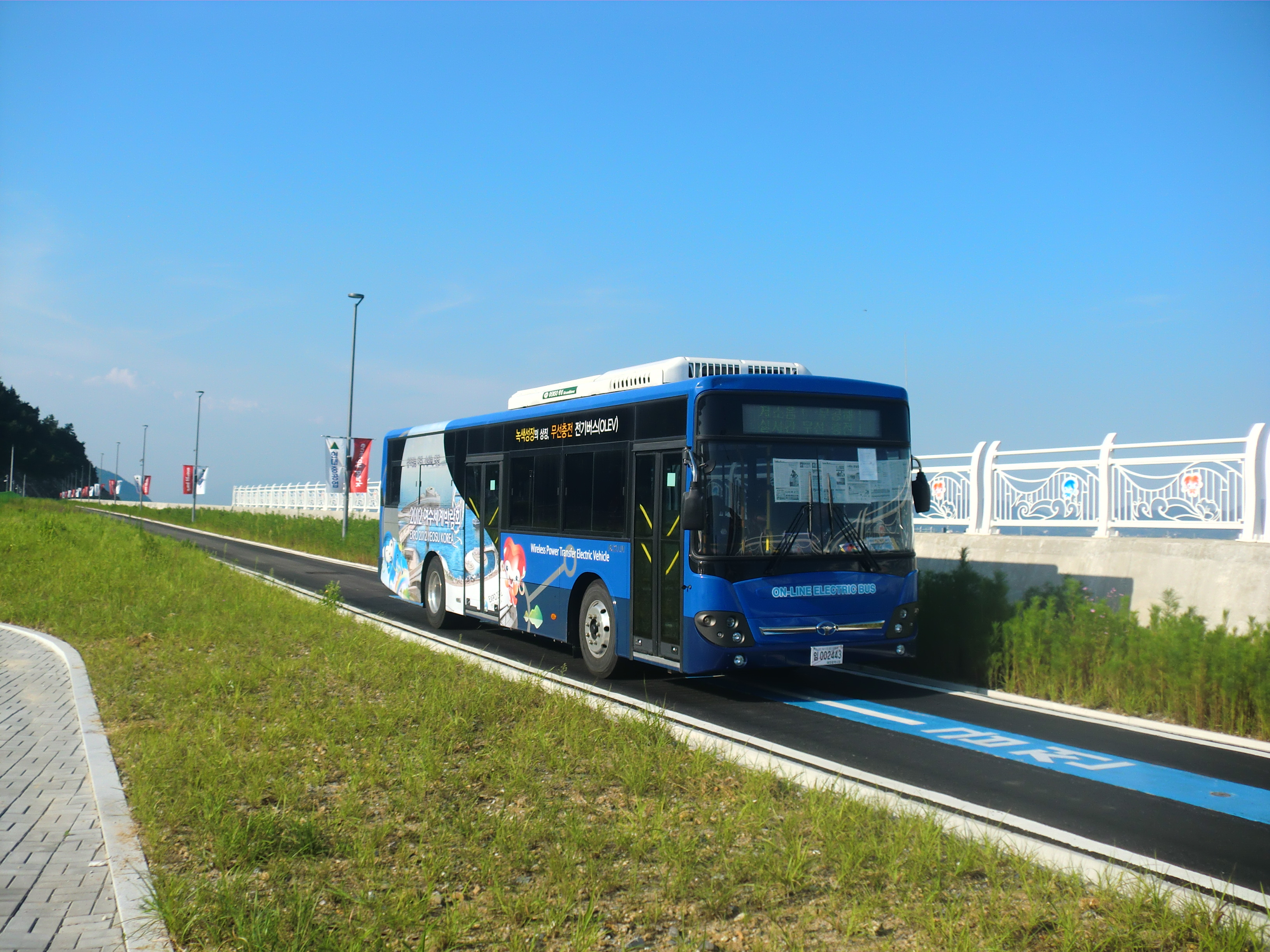 Expo 2012 Energy Park OLEV